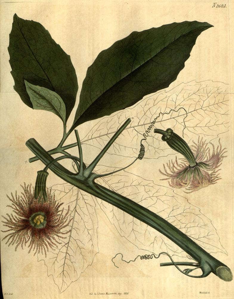 Illustration of a female plant of Telfairia pedata (Orig. Feuillaea pedata)